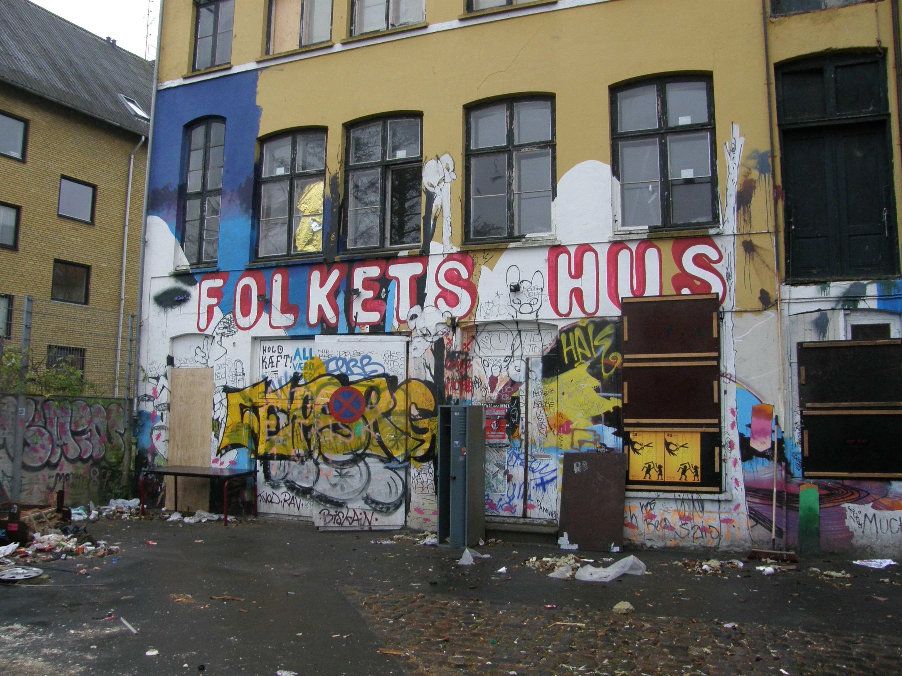 Folkets Hus in Nørrebro, Copenhagen, DenmarkDansk: Folkets Hus på Nørrebro, København, Danmark